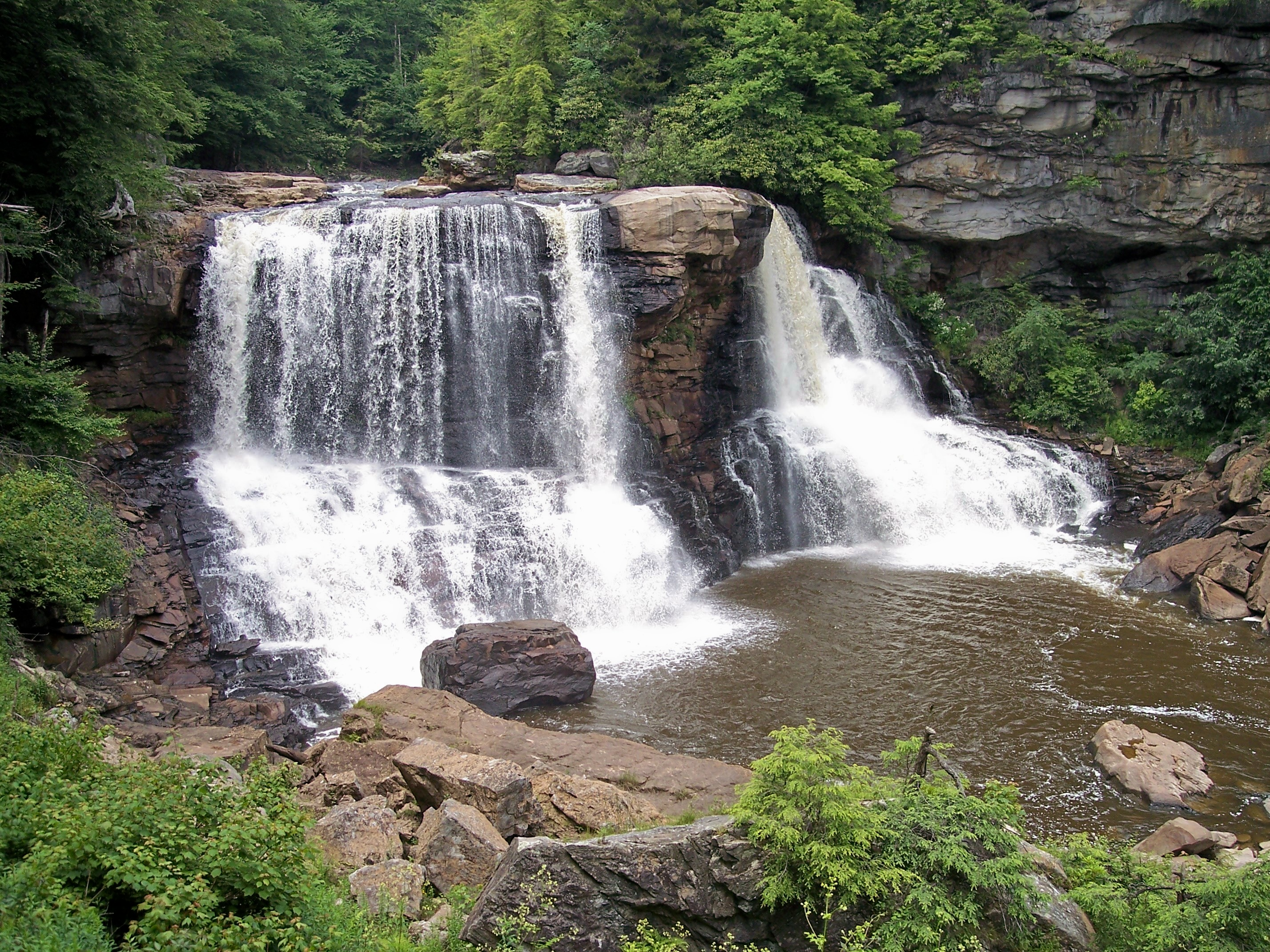 Blackwater Falls on the Blackwater River near Davis in Tucker County, West Virginia